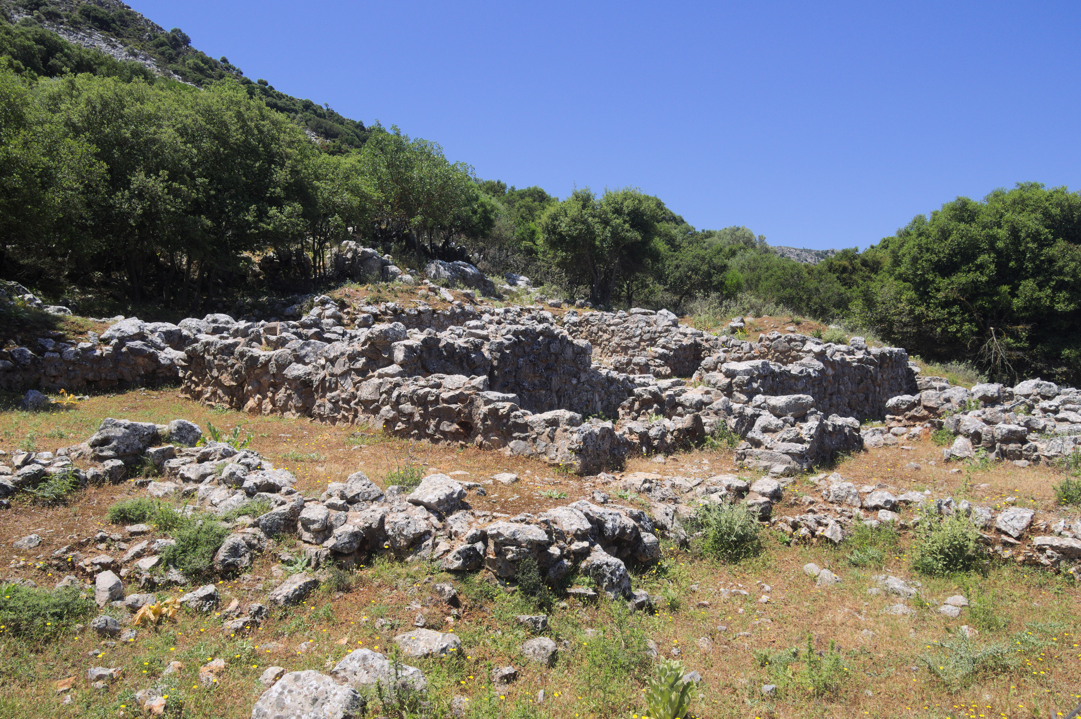 Sklavokampos minoan villa, Malevizi, Crete.